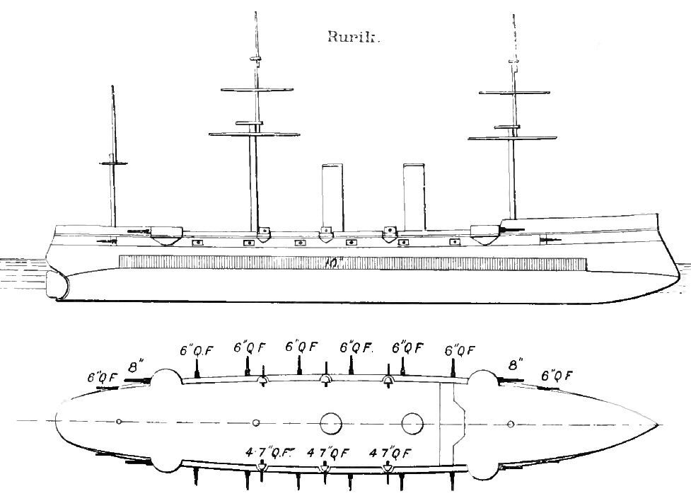 Sketch of the Russian armoured cruisers Rurik (simplified, main armament was in open positions with masks).